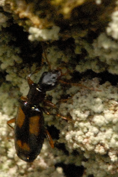 Calodromius spilotus from Commanster, Belgian High Ardennes .